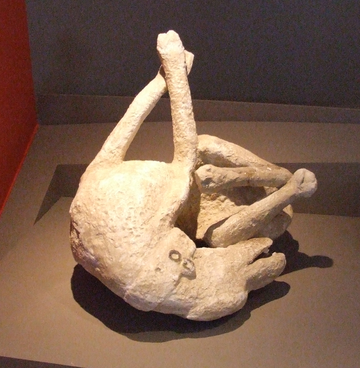 Pompeii, cast of a dog dead in the 79 AD eruption.